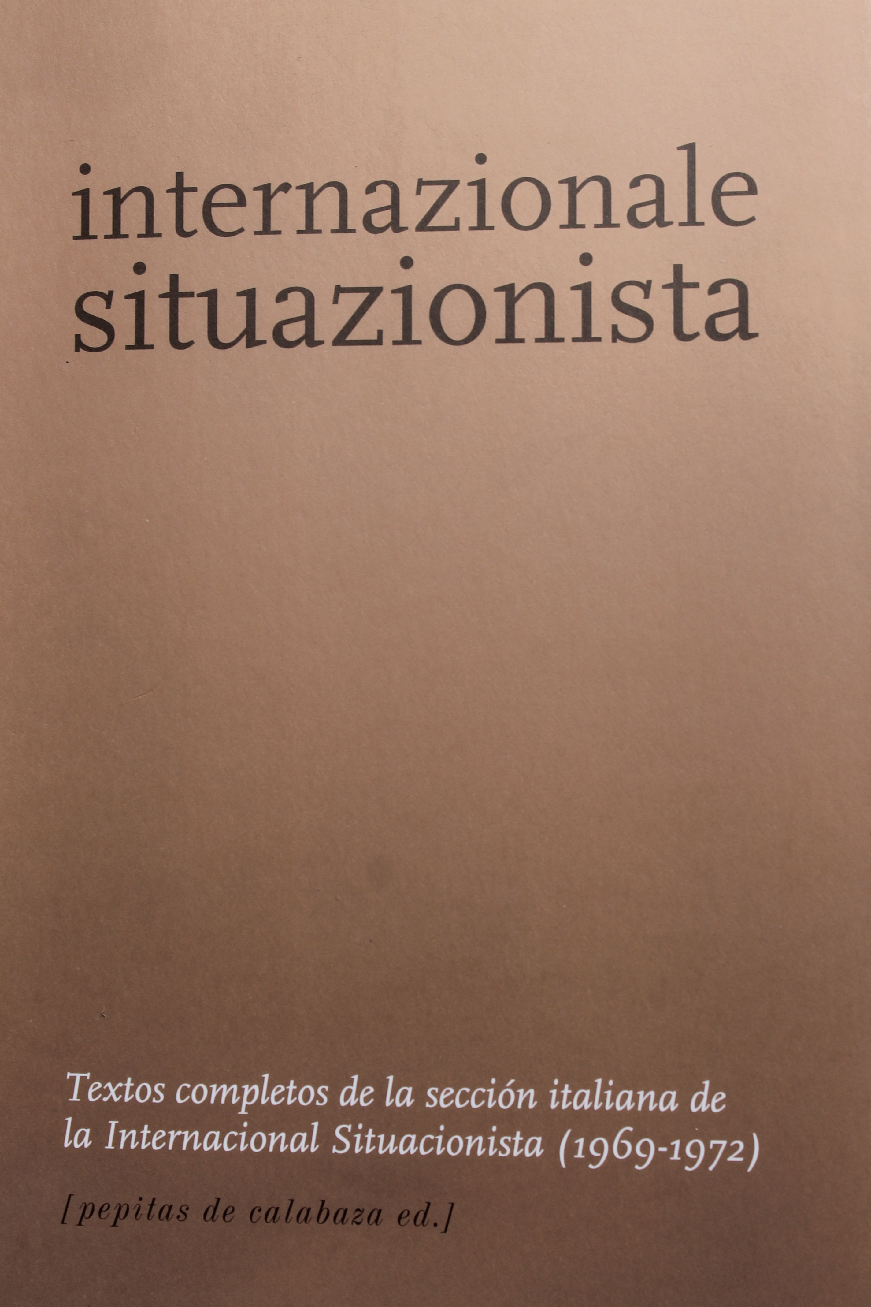 Internazionale situazionista (Pepitas de calabaza)